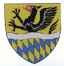 Coat of arms of Biberbach, Lower Austria